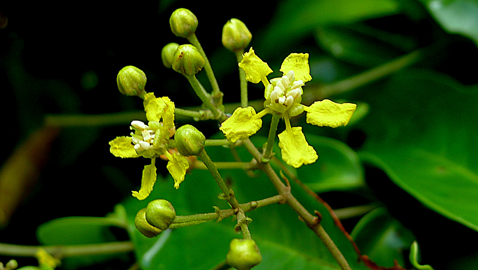 Niedenzuella sp., Malpighiaceae, Atlantic forest, northern littoral of Bahia, Brazil